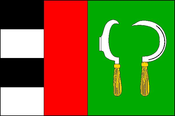 Municipal flag of Žeravice village, Hodonín District, Czech Republic.